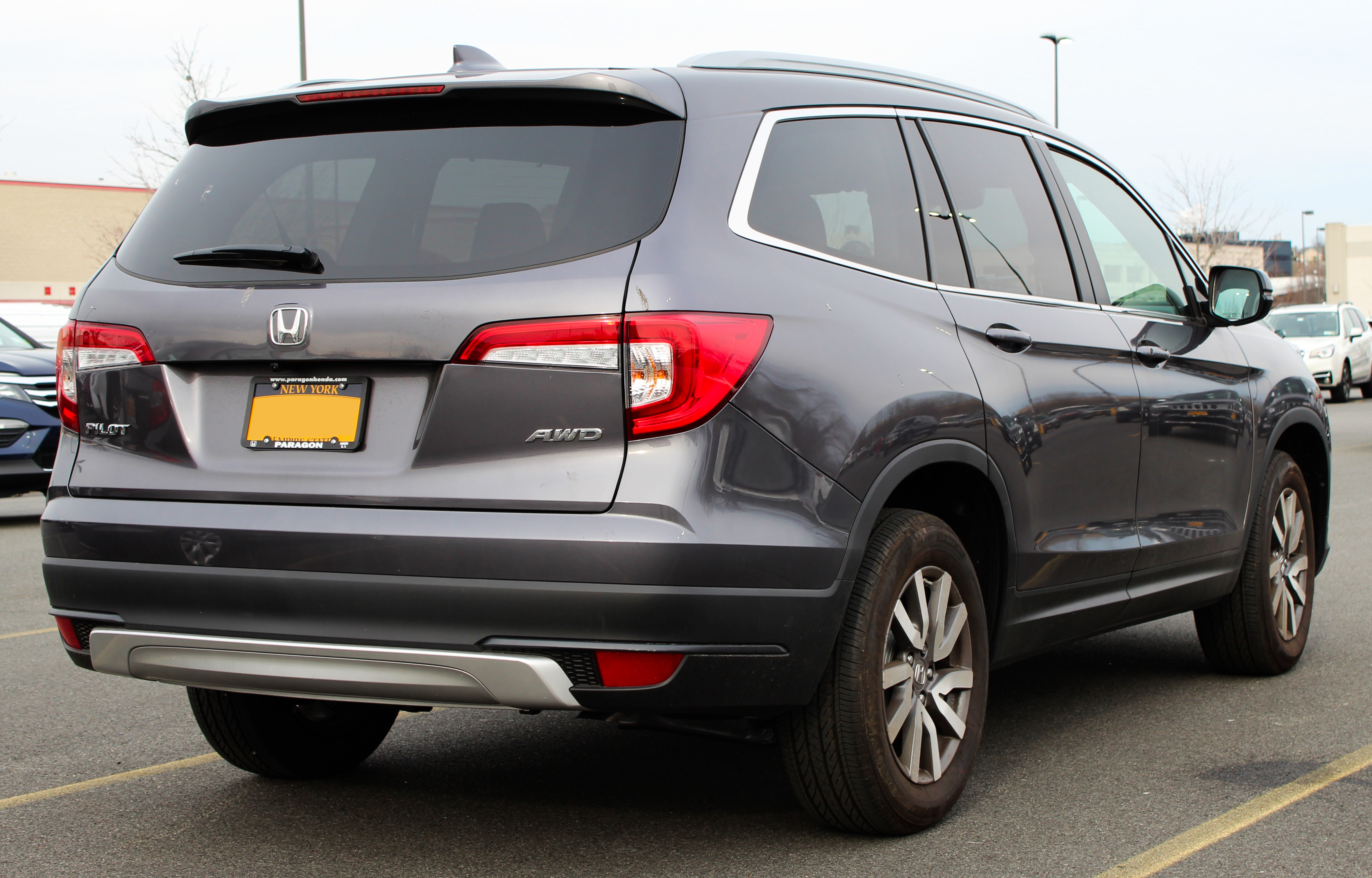 A 2019 Honda Pilot EX-L parked in a parking lot in College Point (Queens), New York